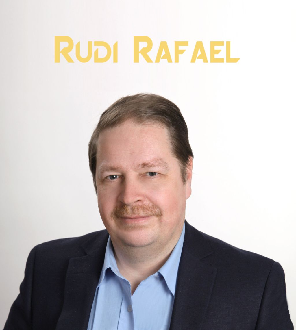 Musician and painter Rudi Rafael from Finland